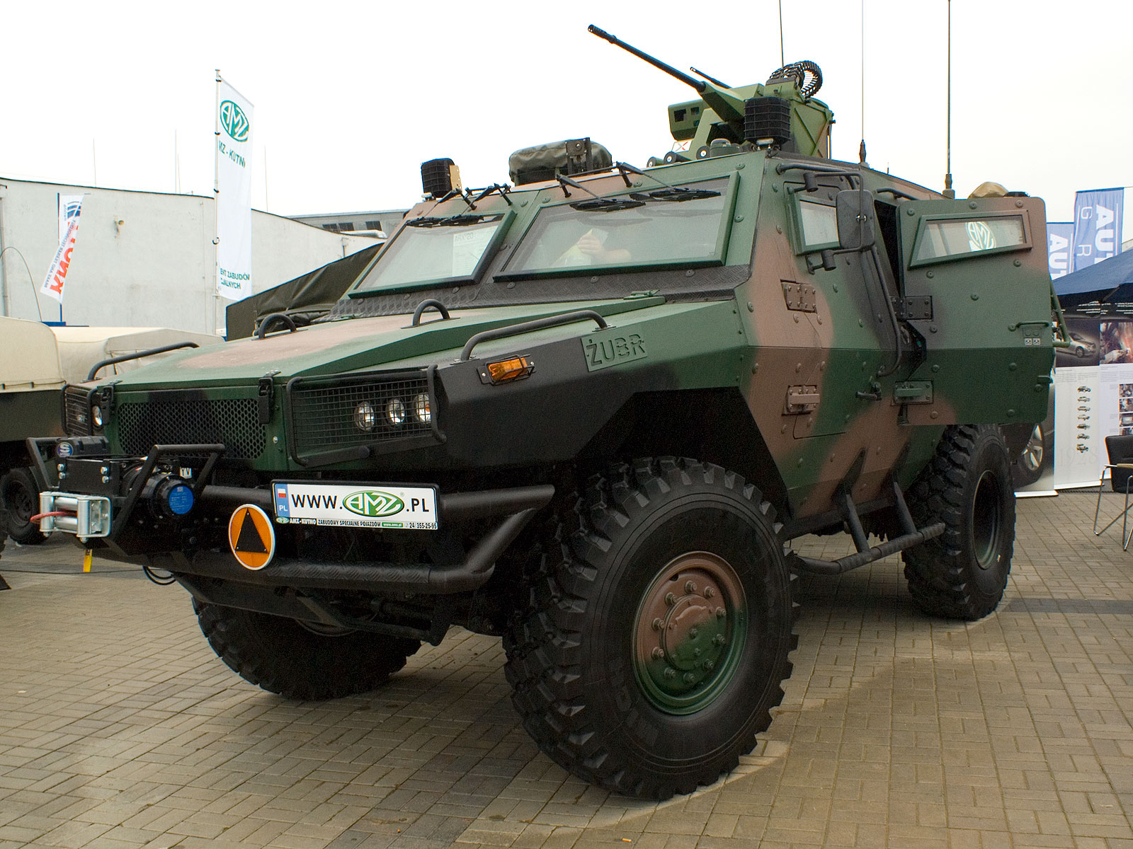 AMZ Żubr WD